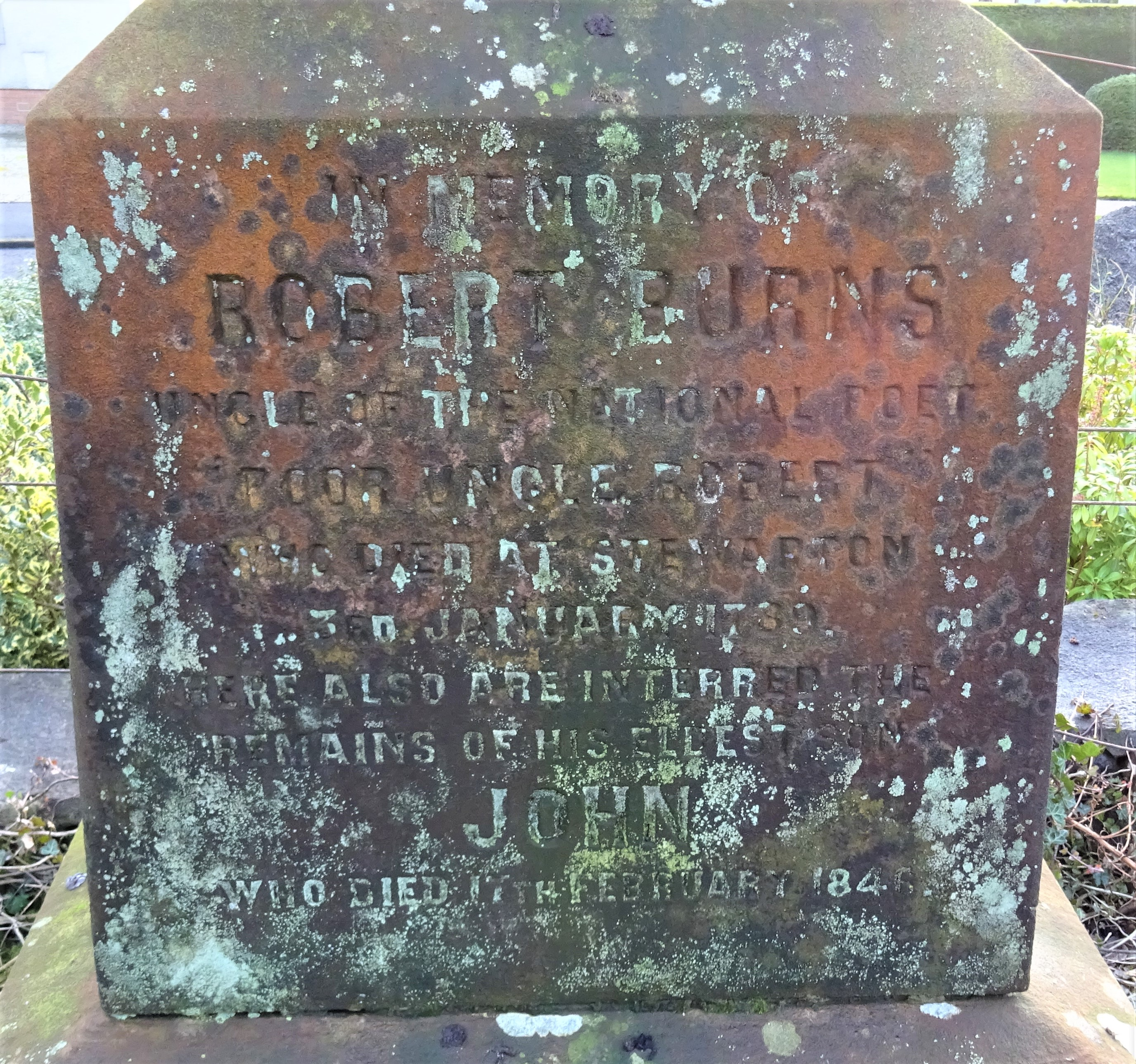 The Robert & John Burnes Memorial, St Columba's Church, Stewarton, East Ayrshire. Main inscription. The uncle and cousin of the poet Robert Burns.